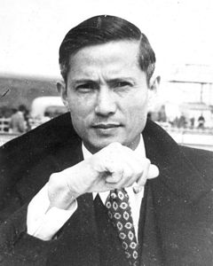 Image of Phan Huy Quat